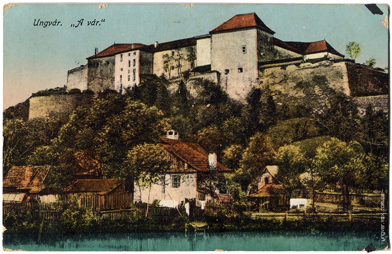 Ужгородський замок (K. J. Bp. Törv. védve 1914/18 Bc. :: 11)